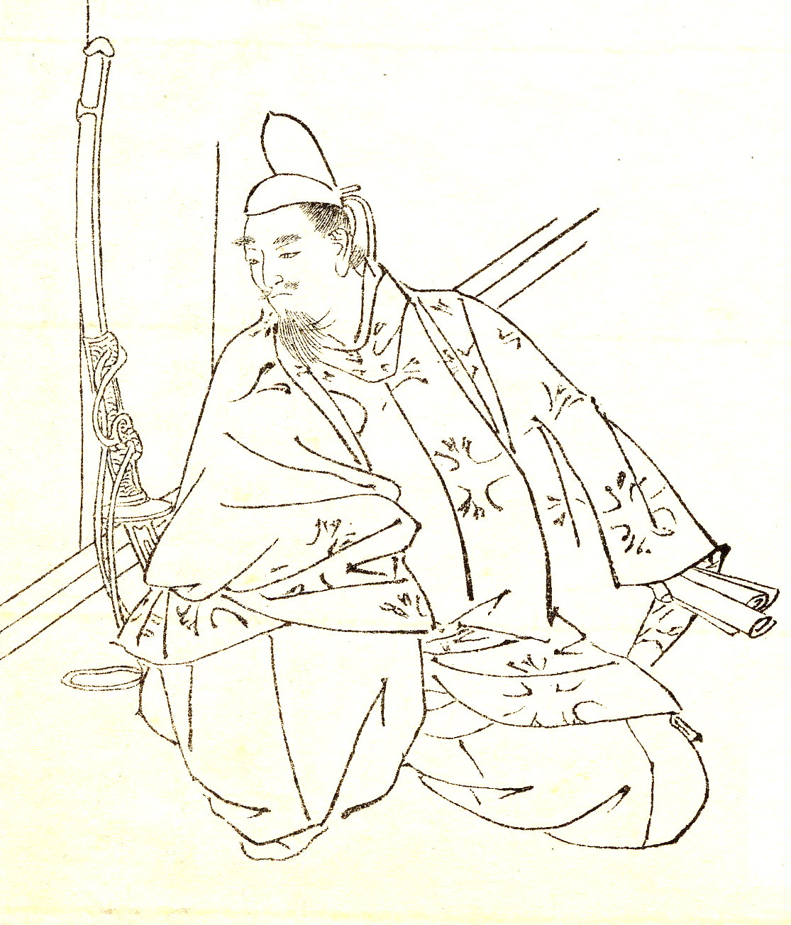 Fujiwara no Yasunori (藤原保則) was a Japanese court noble in the Heian period.This picture was drawn by Kikuchi Yosai（菊池容斎） who was a painter in Japan.